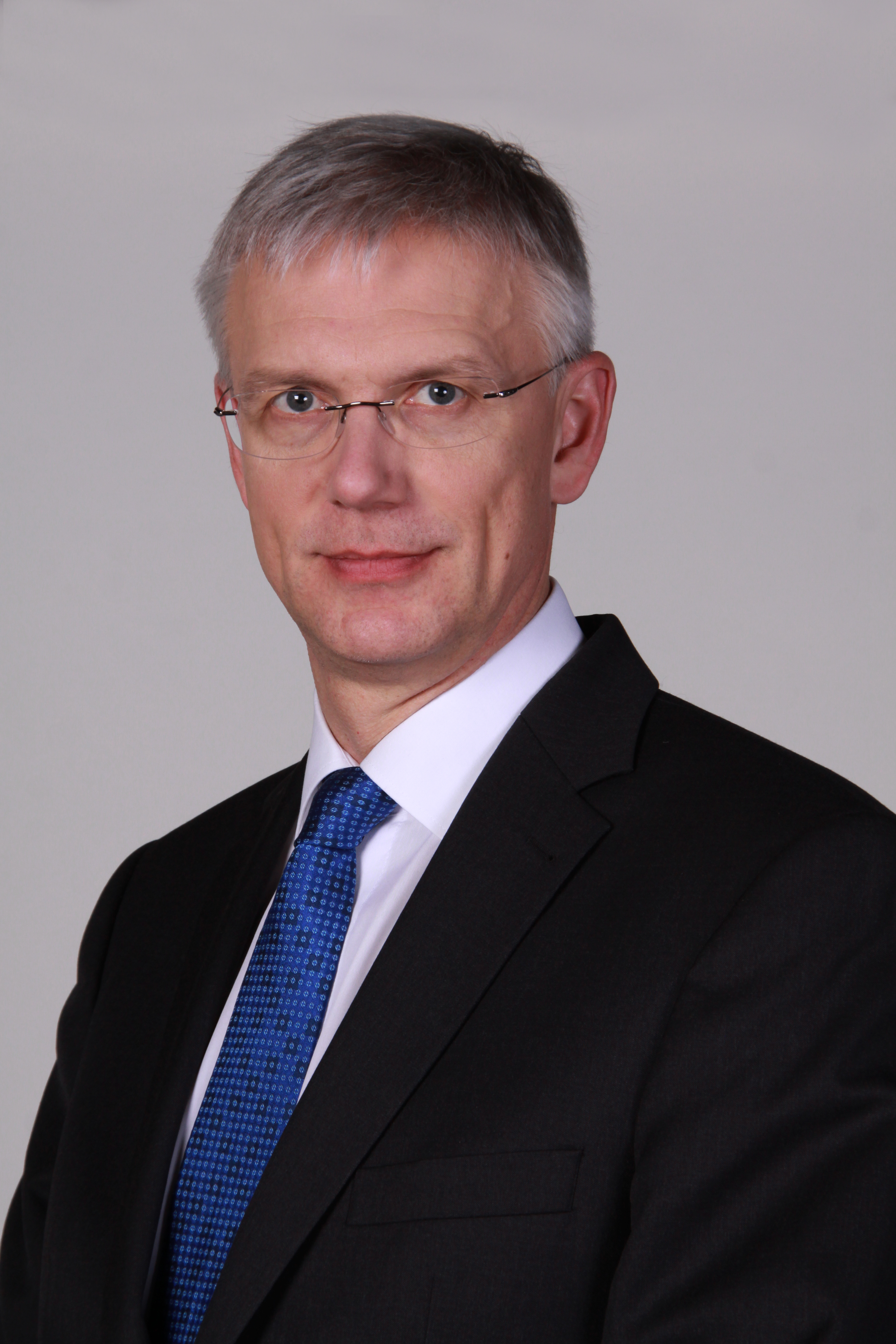 Krisjanis Karins, Member of the European Parliament